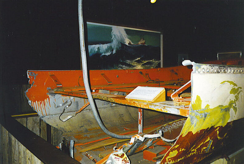 Image of Edmund Fitzgerald lifeboat taken at the Valley Camp Museum Ship in Sault Ste. Marie Michigan